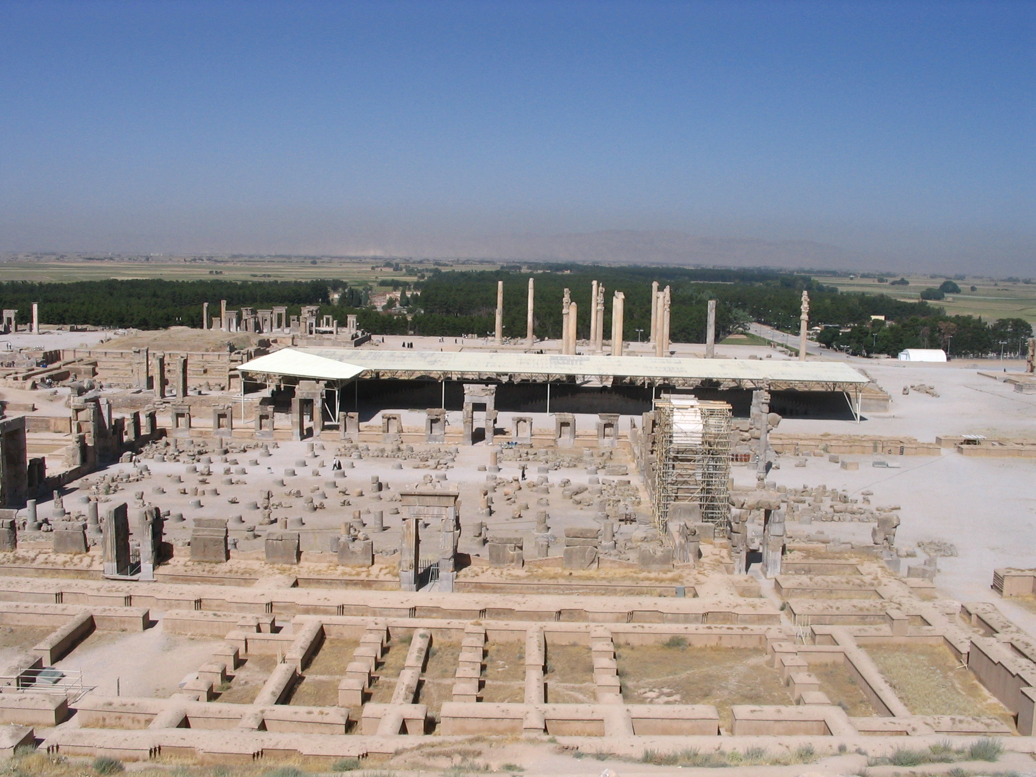 Ancient Persian city of Persepolis